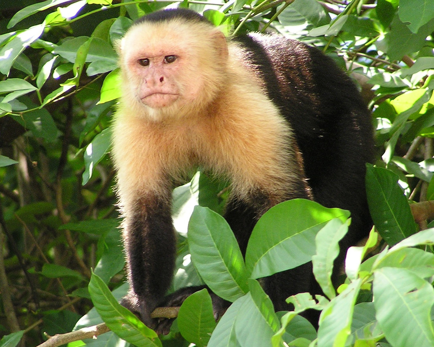 Wild Capuchin monkey (Cebus imitator), on a tree near a river bank in the jungles of Guanacaste, Costa Rica. Taken by Storkk.